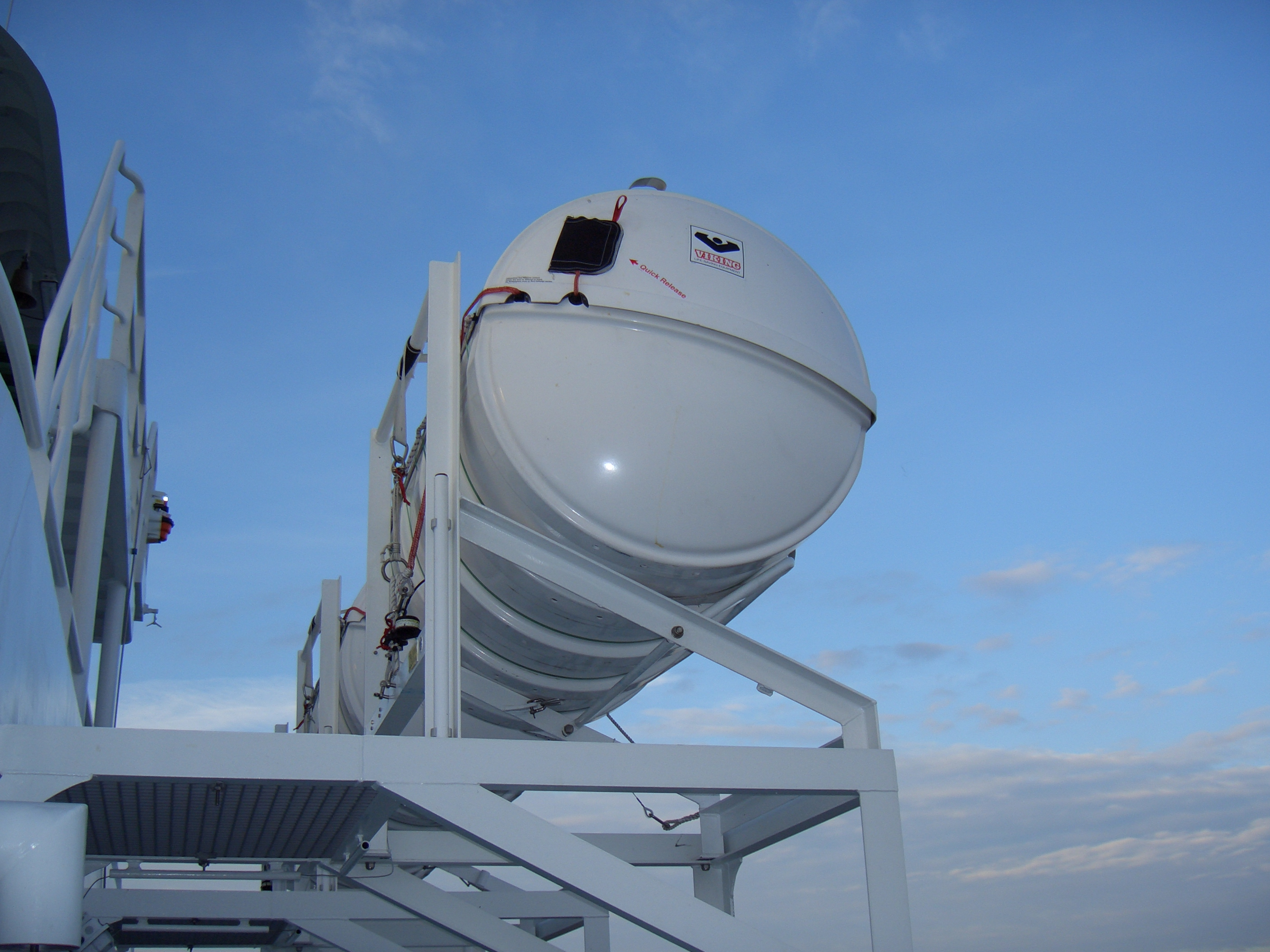 Lifeboat